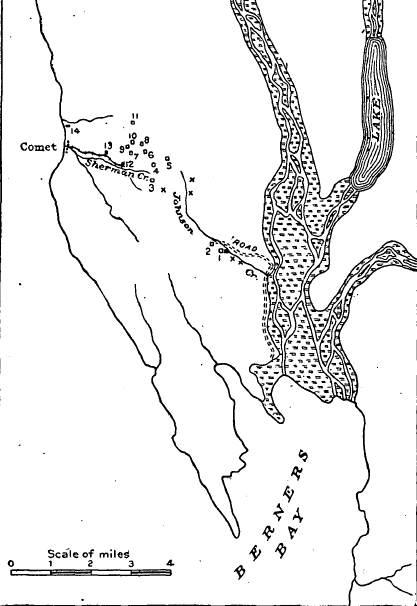 Berners Bay map